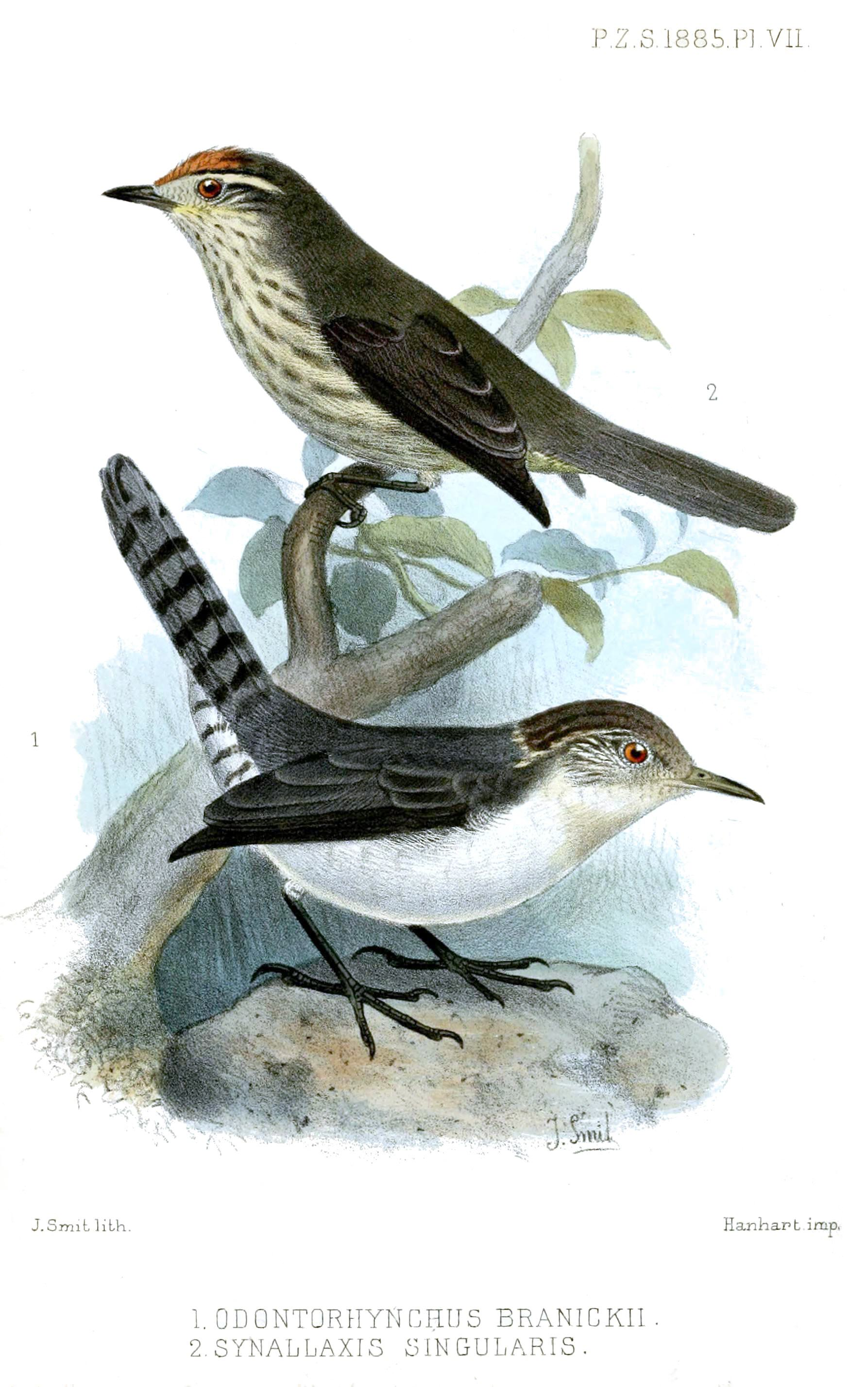 Equatorial Greytail, adult male (above); Grey-mantled Wren, adult male (below)